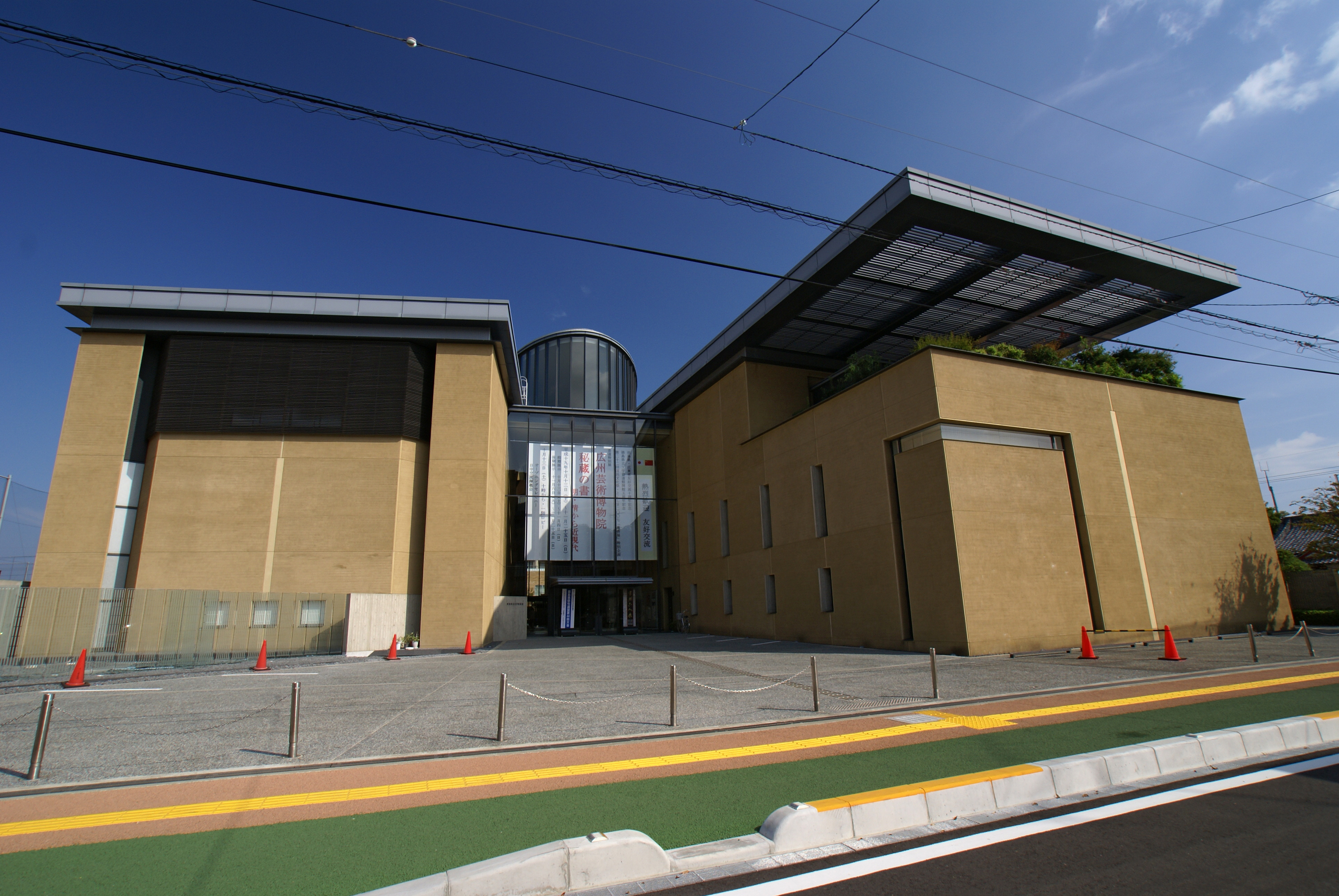 Tokushima Prefectural Museum of Literature and calligraphy in Tokushima, Tokushima prefecture, Japan